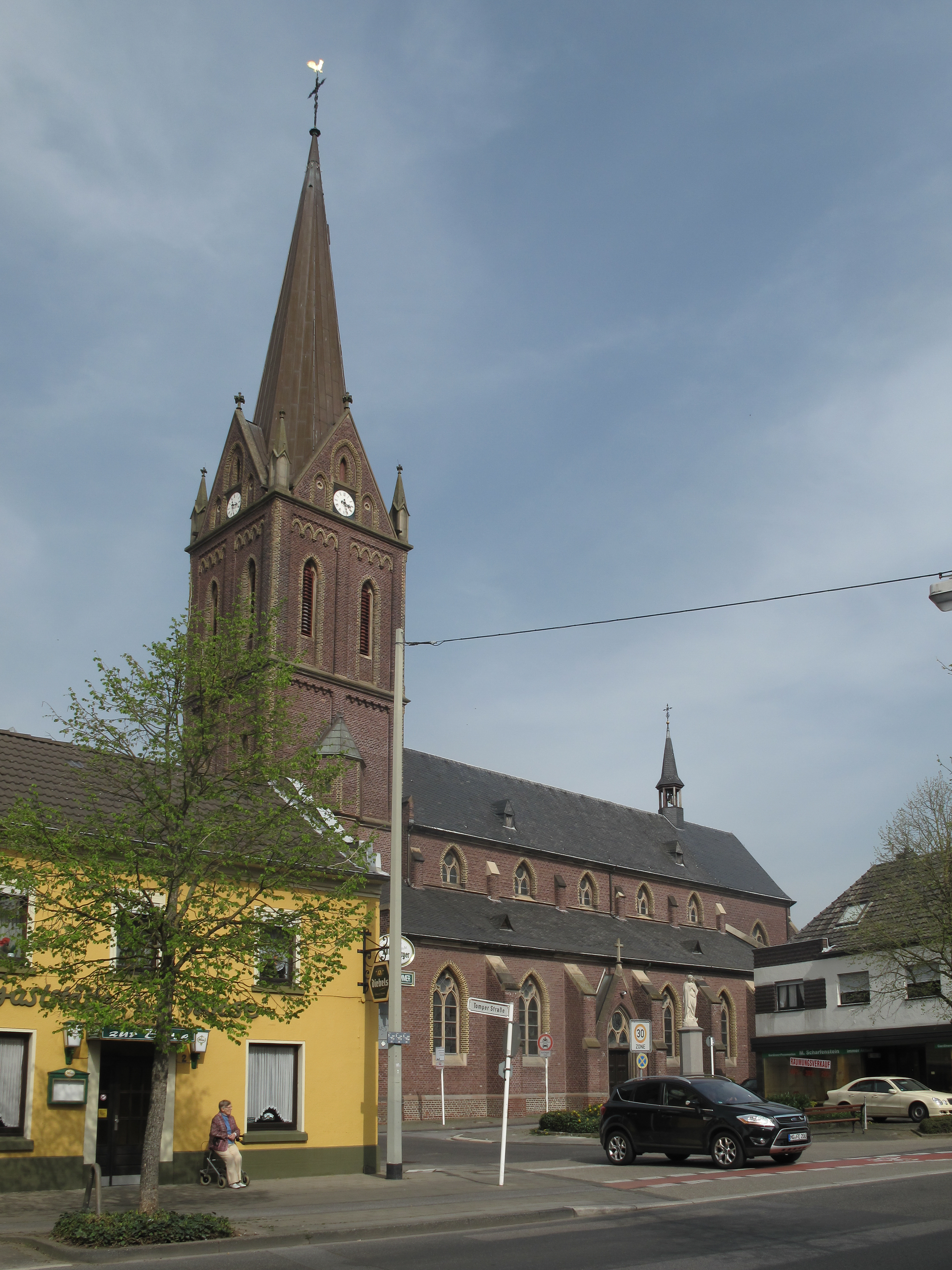 Hardt, church: die Sankt Nikolauskirche This is a photograph of an architectural monument.